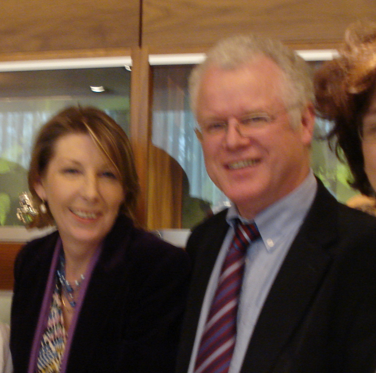 Aine Lawlor and Cathal Mac Coille at the 25th Anniversary of Morning Ireland.